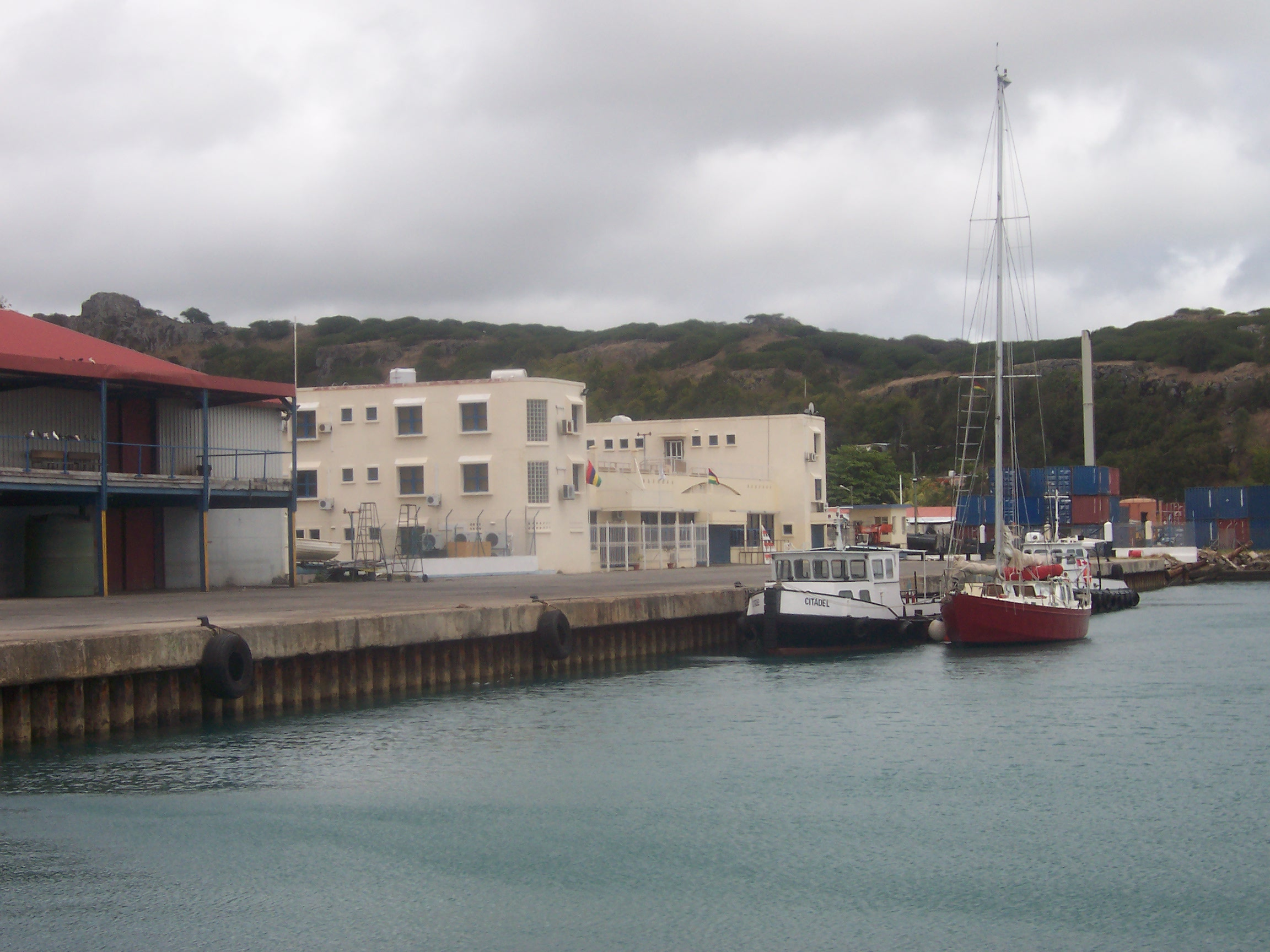 Port-Mathurin's harbour (Rodrigues) : the quay, the warehouse and the regional assembly